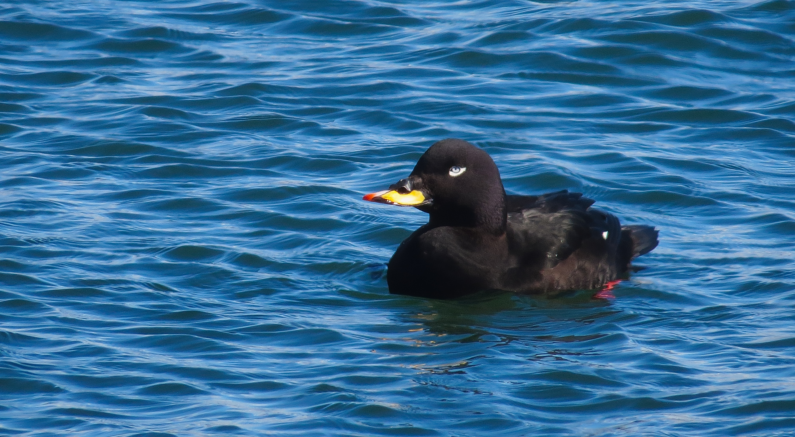 Velvet Scoter Melanitta fusca, Glommens Hamn, Falkenberg, Sweden